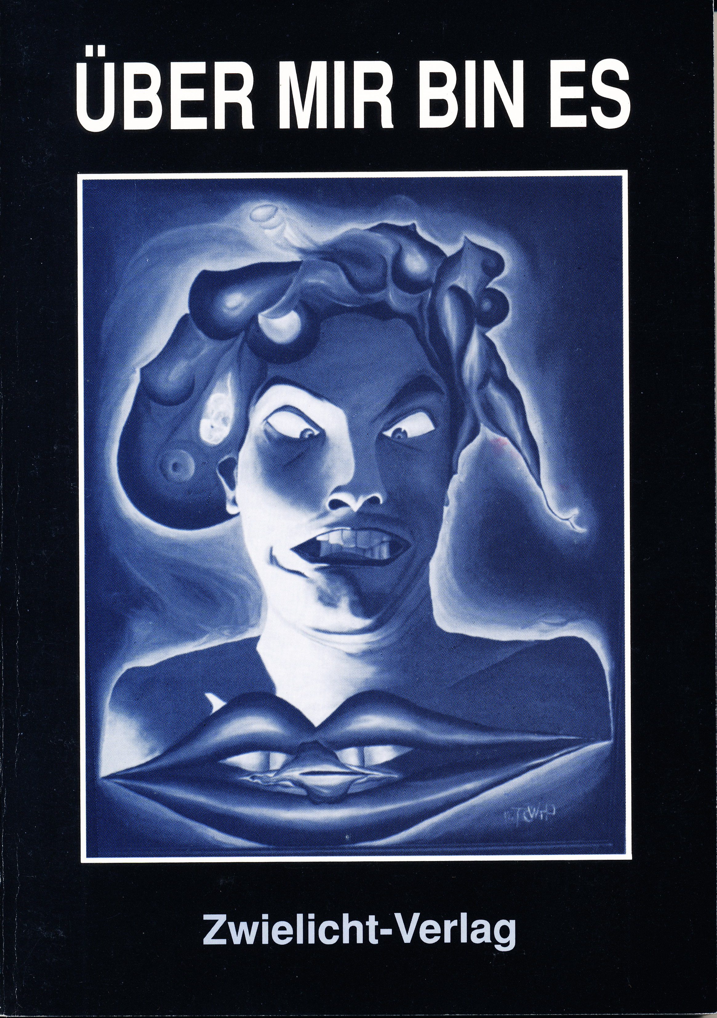 Lyrics titeled Über mir bin Es (means: above me am it) by Christian W. Staudinger